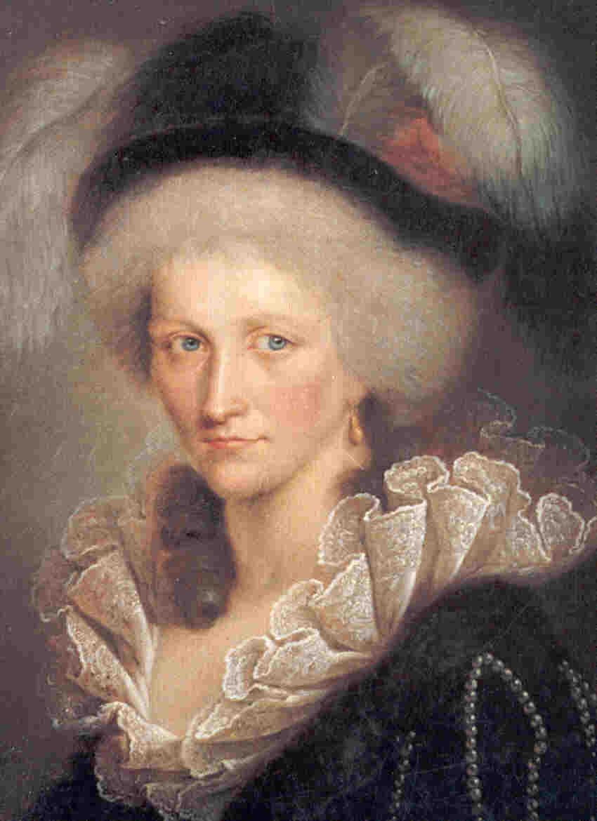 Portrait of Countess Augusta Reuss of Ebersdorf (1757-1831), Duchess of Saxe-Coburg-Saalfeld